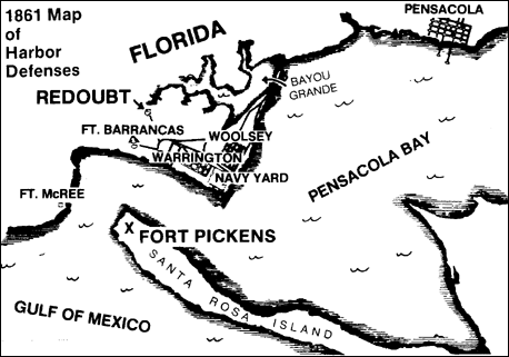 Drawing of Pensacola Bay showing placement of three defensive positions.